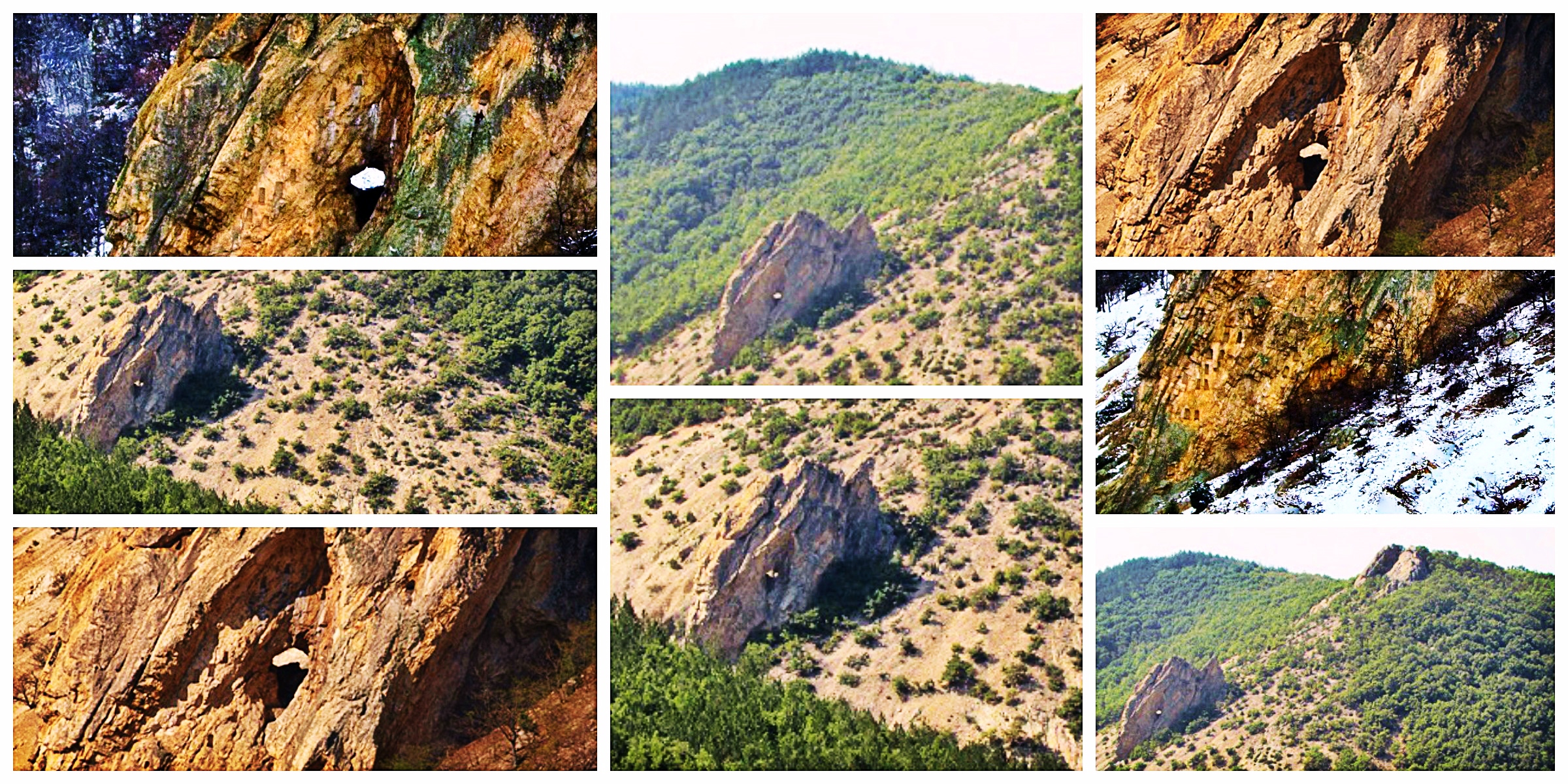 Shan kaya sladkodum Rhodopes BG